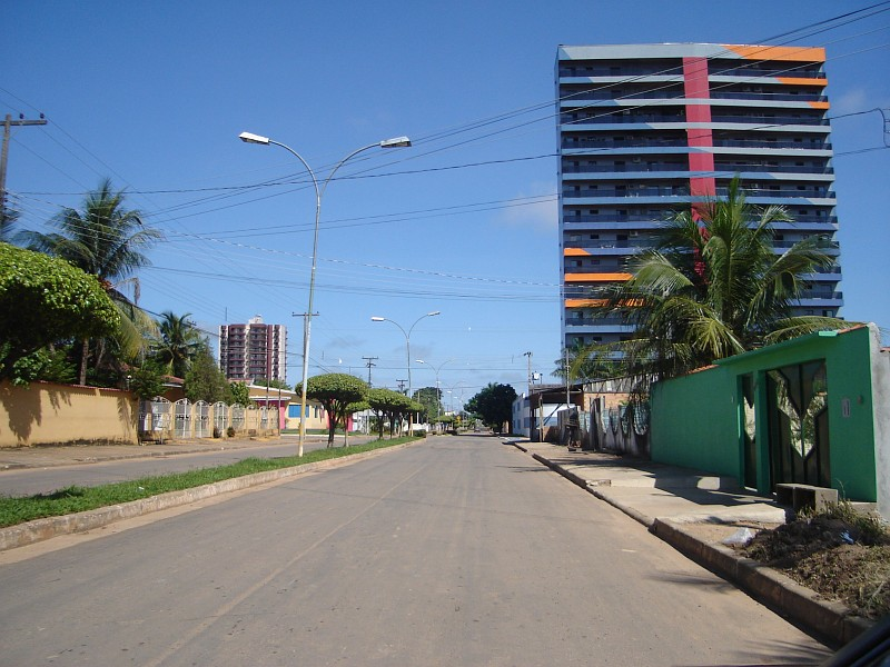 Urupa Avenue, Ji-Paraná, Rondônia State, Brazil.